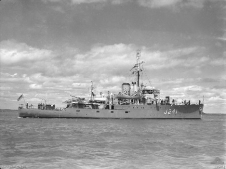 Australian War Memorial image 125071. HMAS Bunbury in 1946.